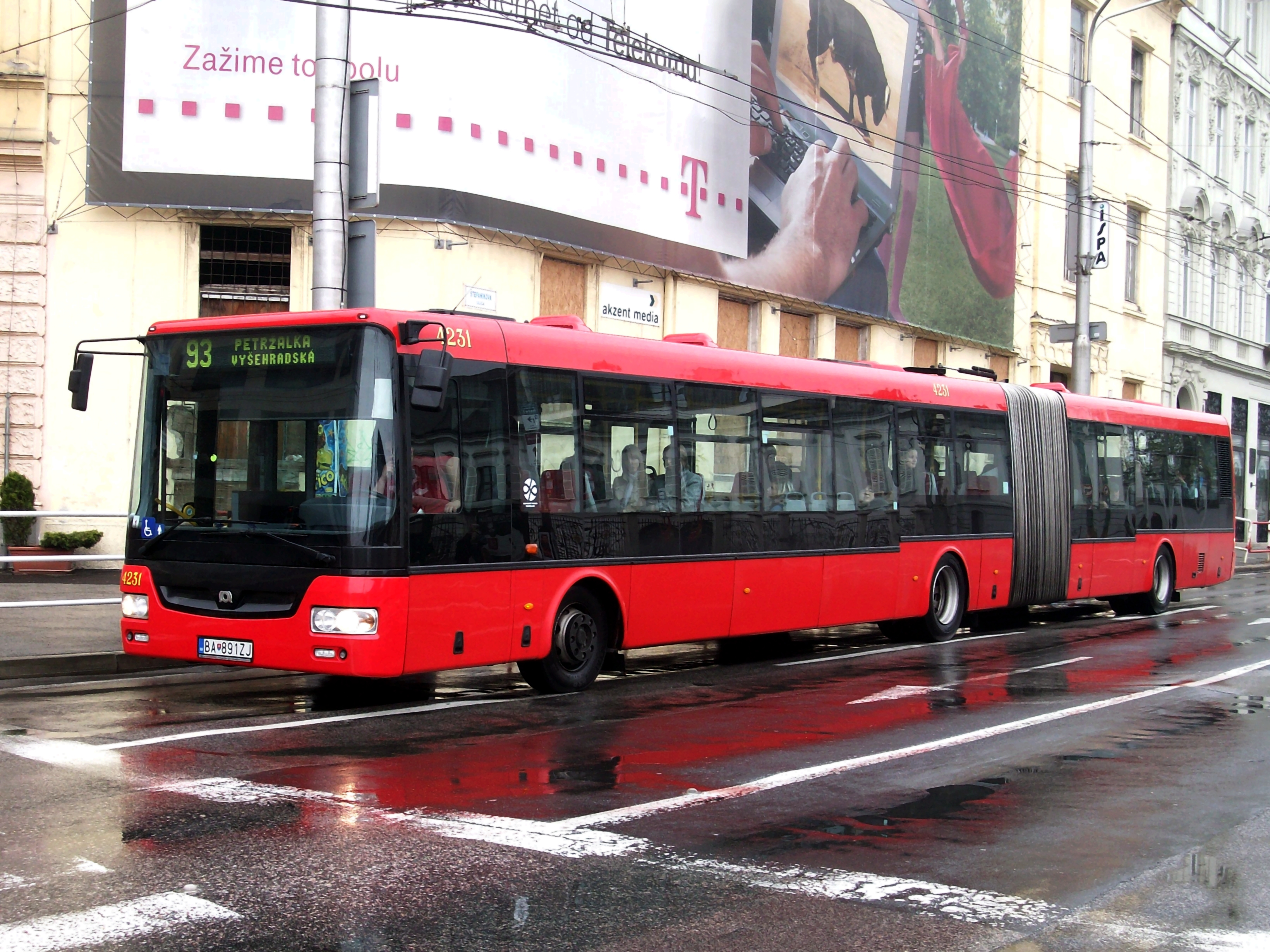 SOR NB 18, Bratislava